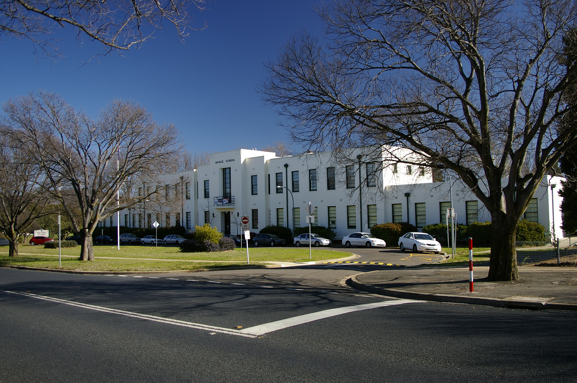 Ainslie Primary School in Braddon.